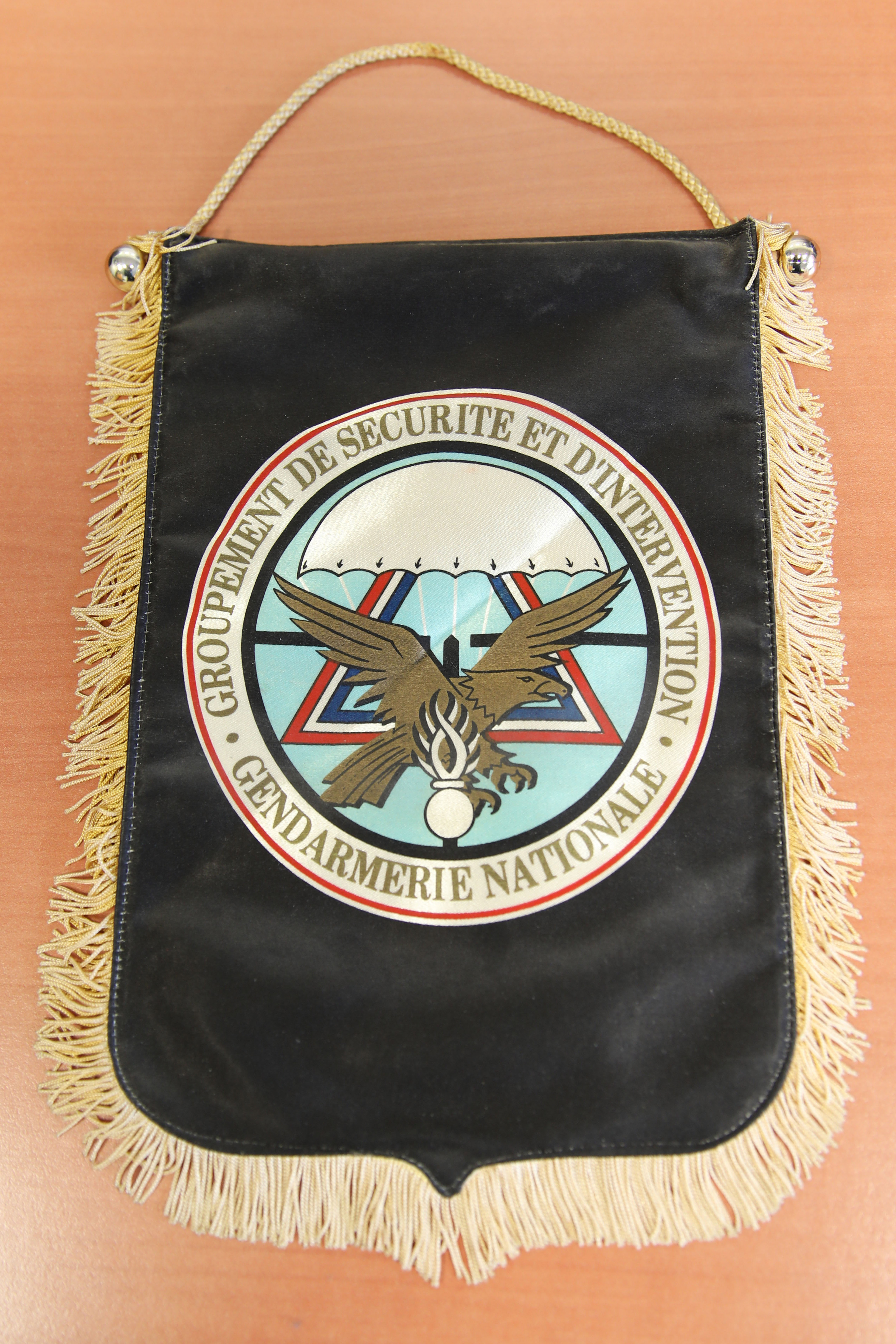 GSIGN was the forerunner of the current GIGN Tactical Unit